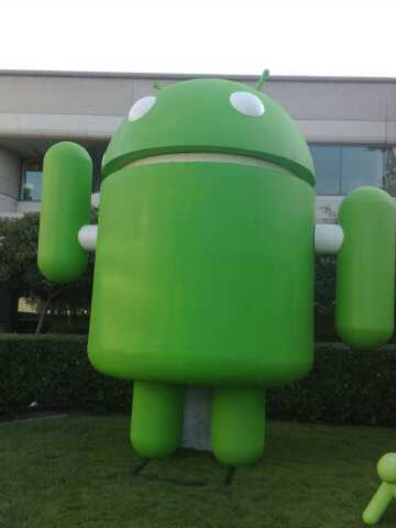 Giant Android robot at the Googleplex, Mountain View, California.